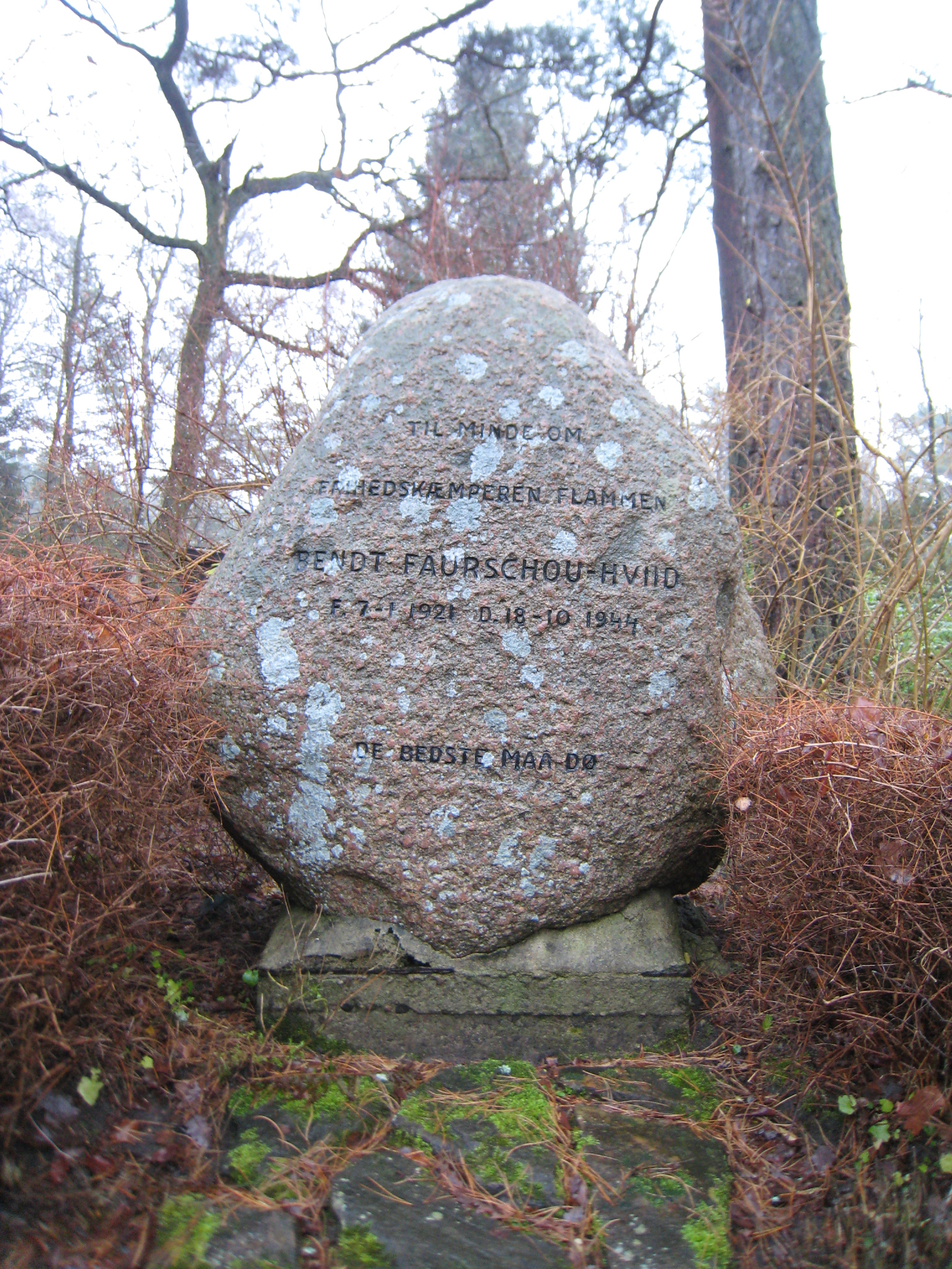 The memorial of the Danish member of the resistance movement during World War II, Bent Faurschou Hviid also known as 'Flammen' ('The Flame') "IN MEMORY OF THE FREEDOM FIGHTER 'FLAMMEN' BENDT FAURSCHOU-HVIID BORN 7-1 1921 DIED 18-10 1944 THE BEST MUST DIE"